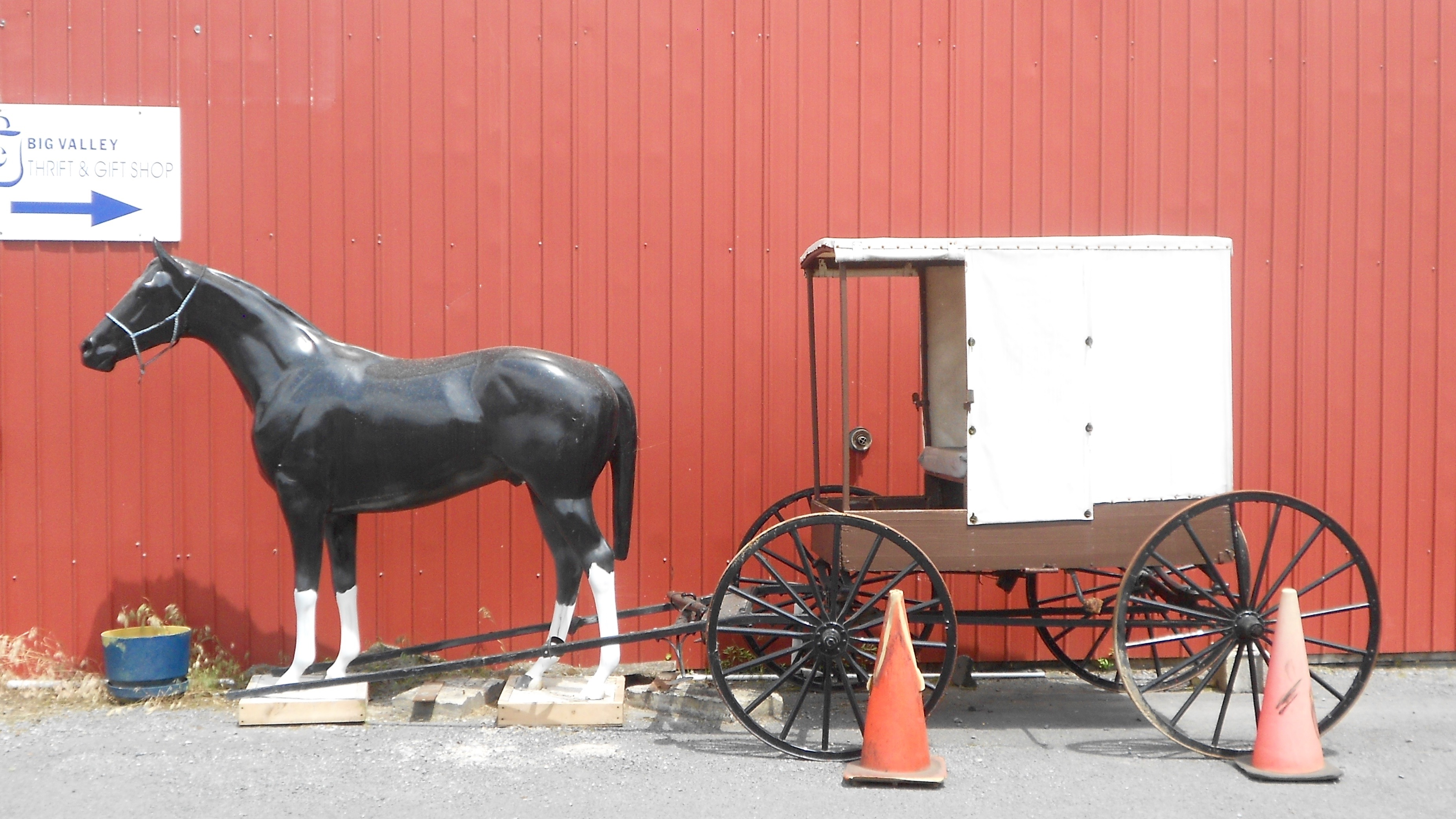 White topped buggy with a model horse in the center of town in Belleville, Pennsylvania